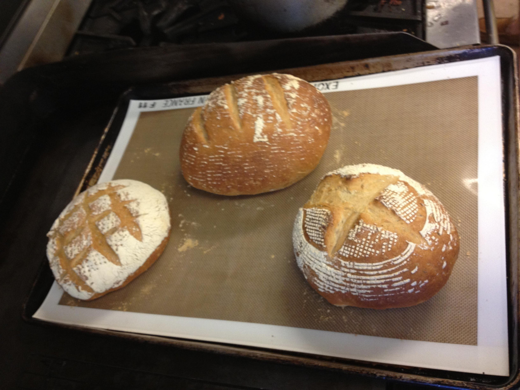 These loaves of Rye bread demonstrate several different kinds of scoring patterns.